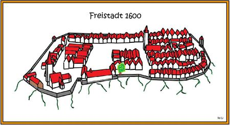 Kresba podoby knížecího města Fryštátu